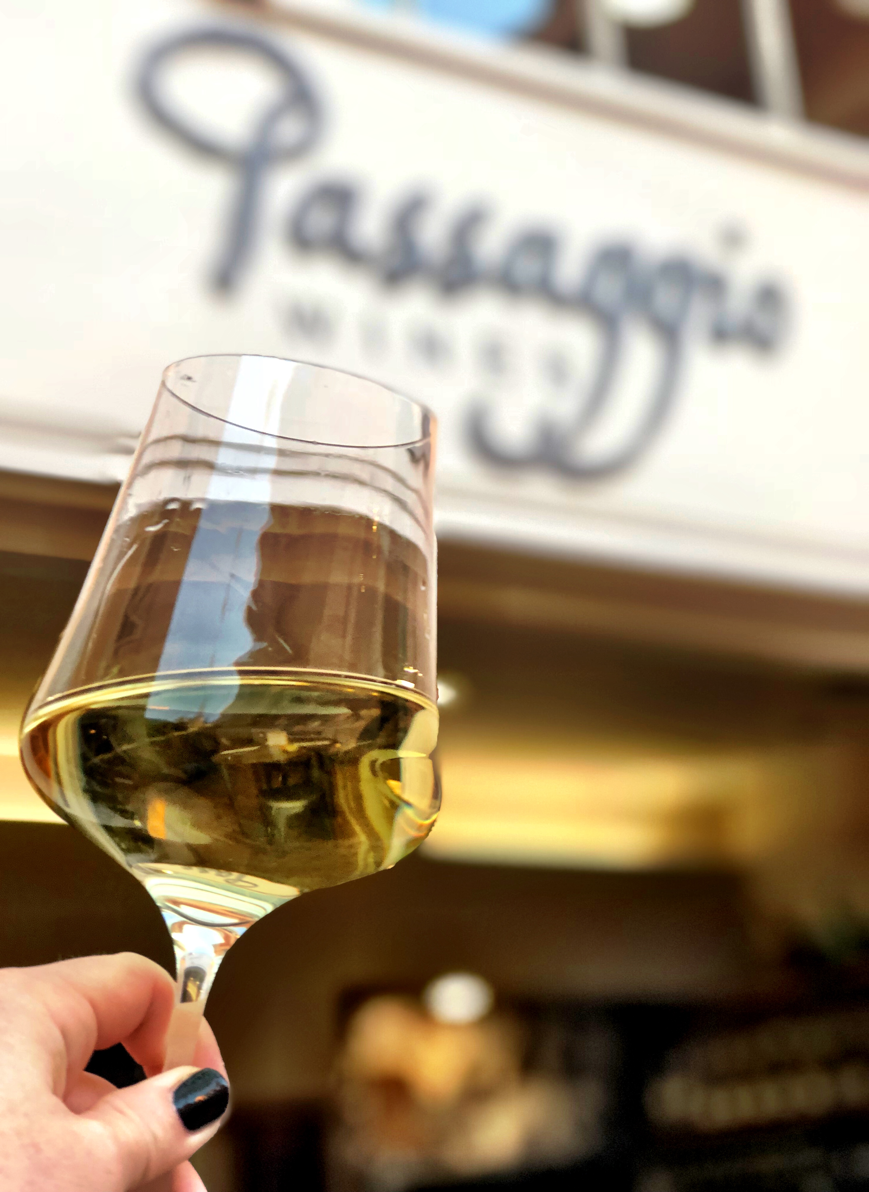 A glass of 2017 Unoaked Chardonnay from Namesake Vineyards, Carneros by Passaggio Wines.